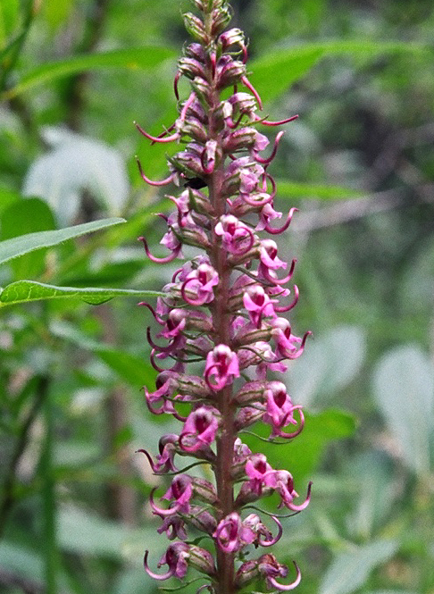 A close look at an Elephant head floret reveals, with only a little imagination, an elephant head complete with ears, trunk, and tusks. Ø2004 D. Windrim Captioned As { }